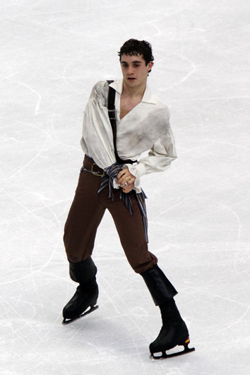 Javier Fernandez at the 2010 Winter Olympics.